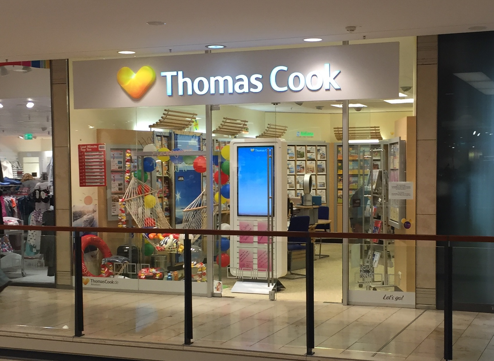 Thomas Cook Shop